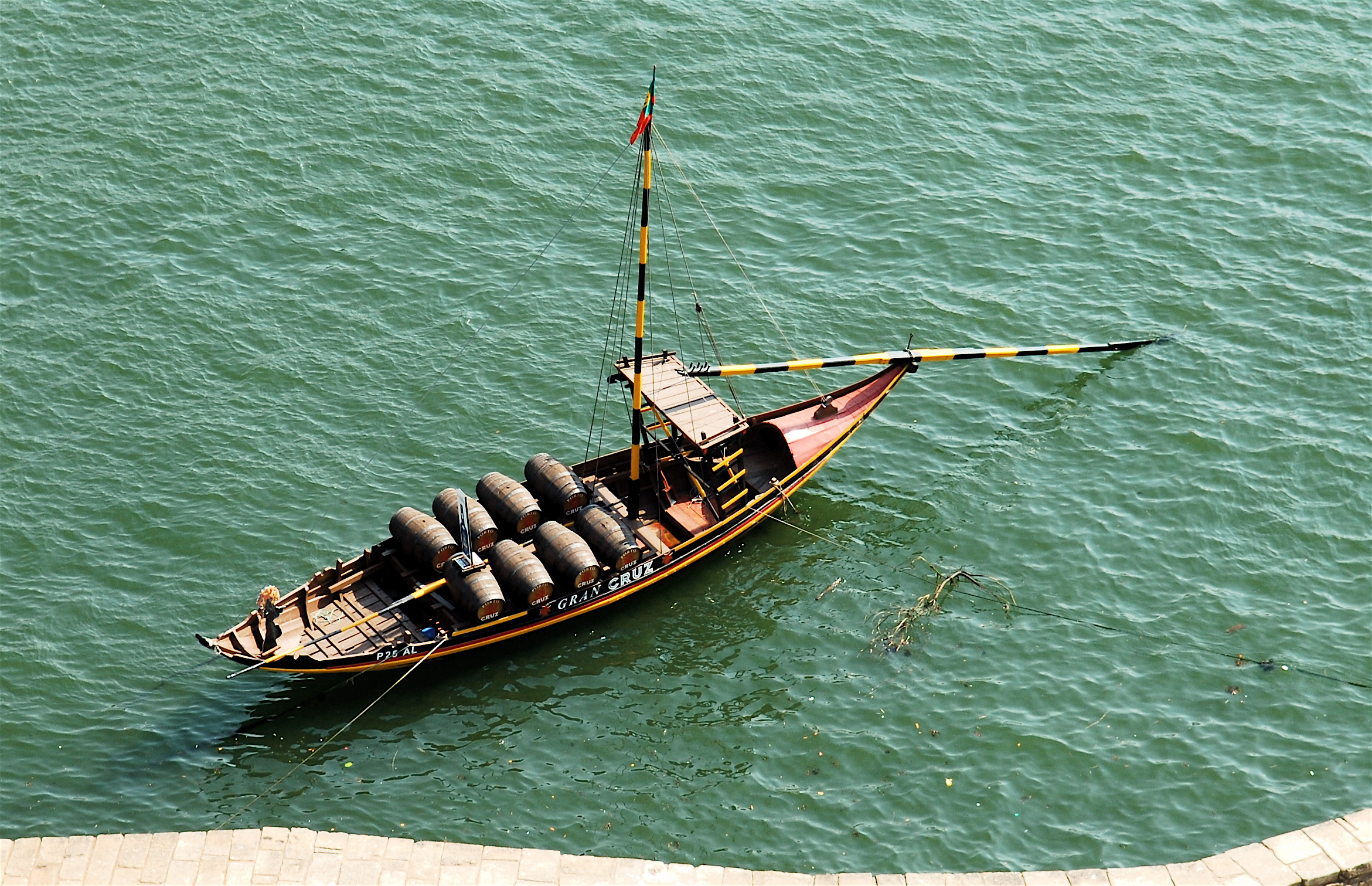 A rabelo boat used by Port shippers to take wine barrels down the Douro river to Oporto, Portugal